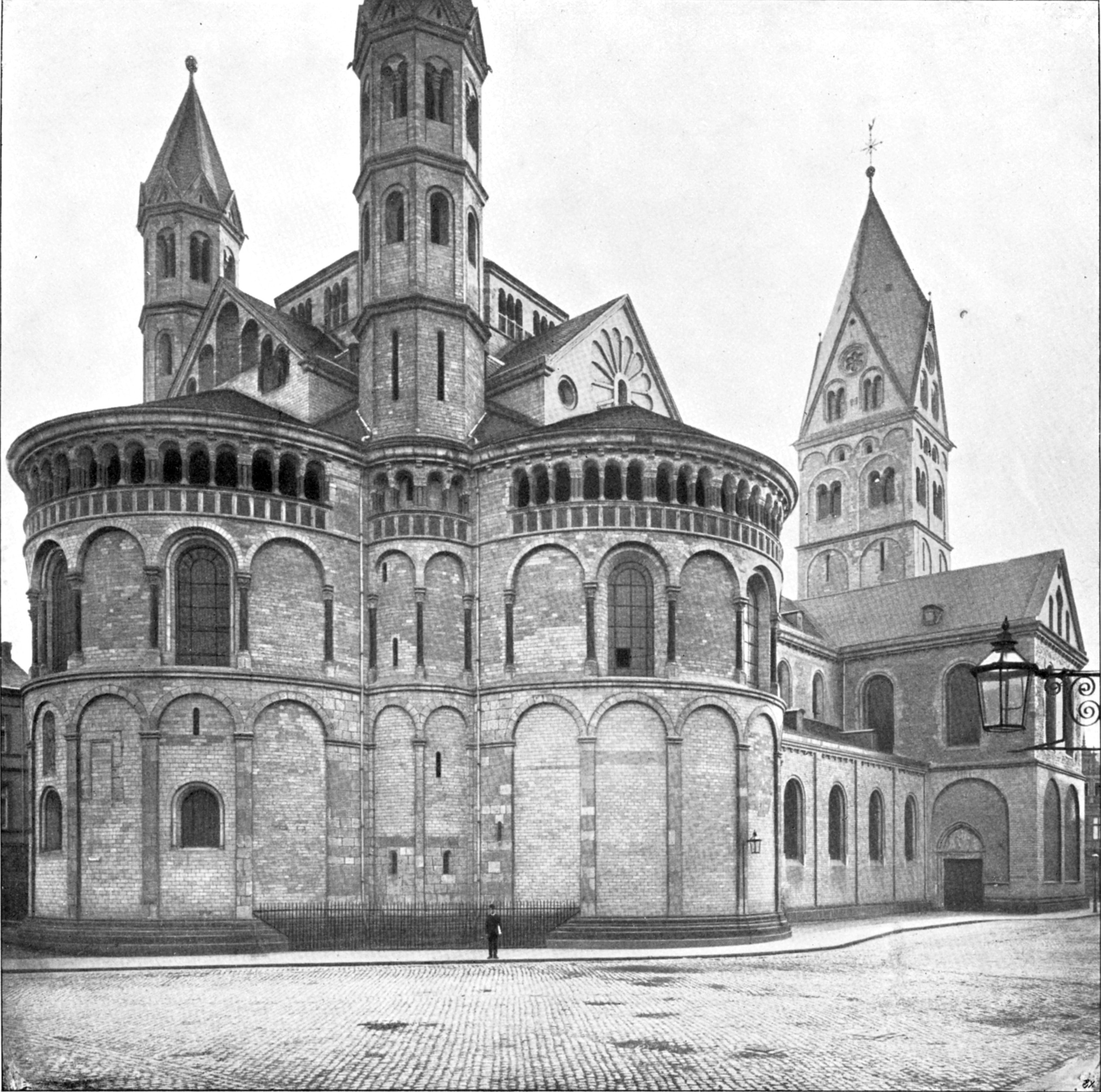 View to the northern side of St. Aposteln, Cologne